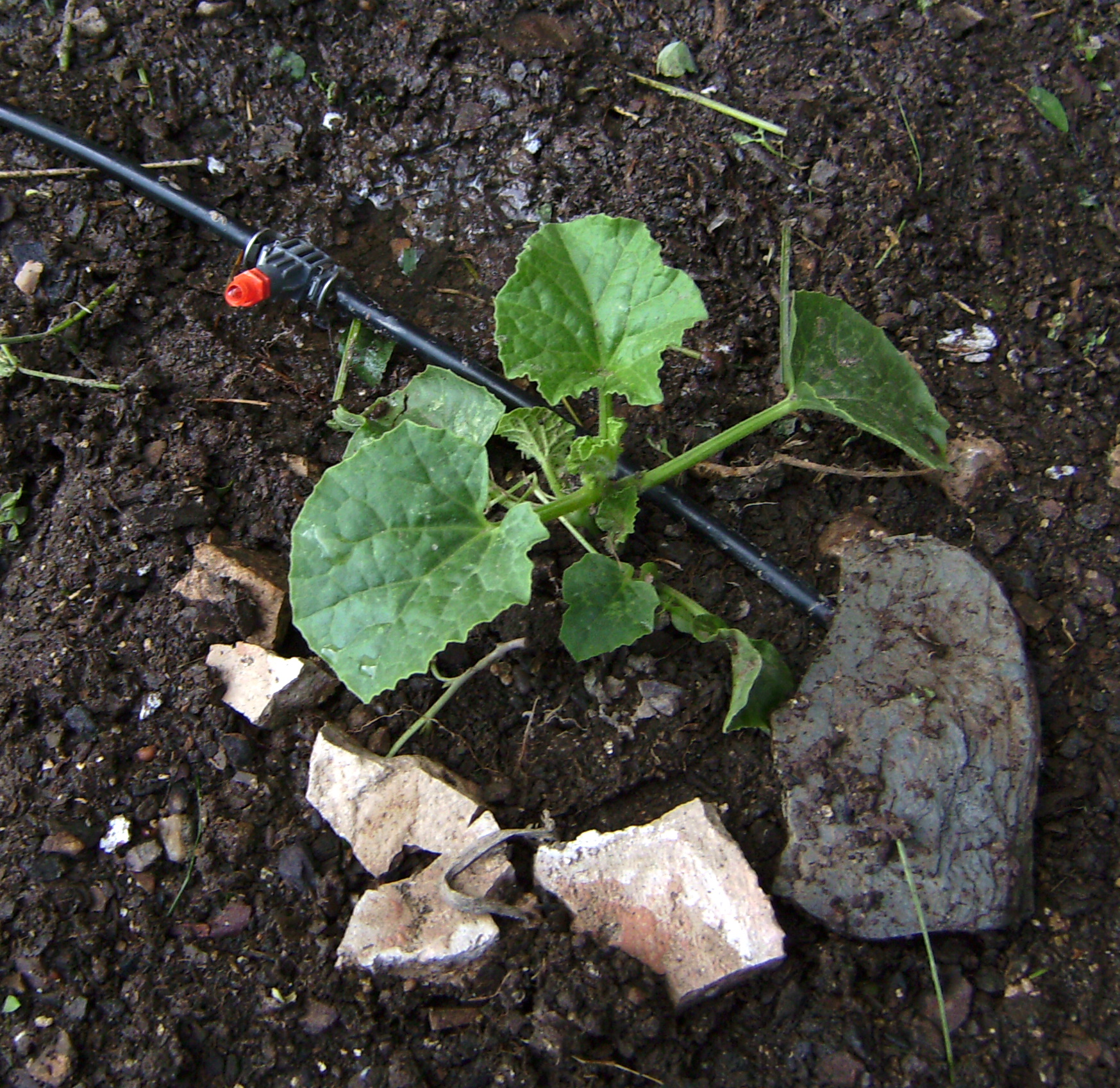 Drip irigation, a melon plant, Castelltallat Catalonia